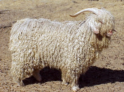 Author: Stanley Petrowski